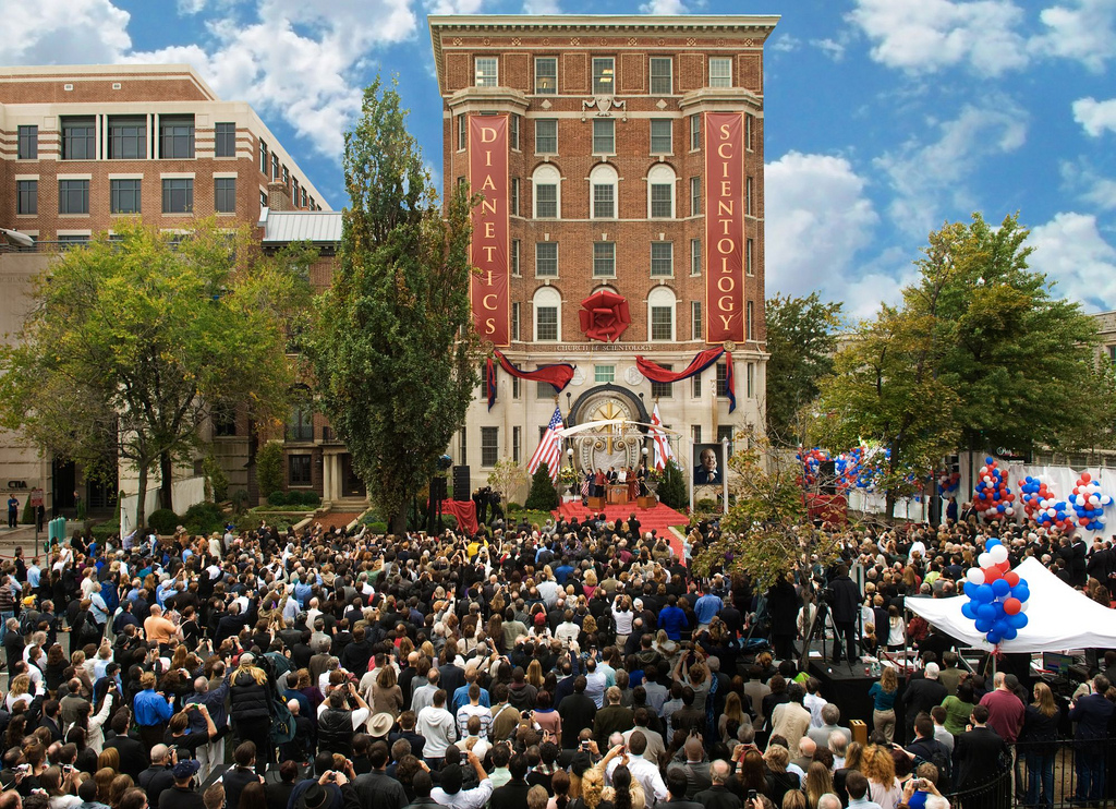 Opened 31 October 2009